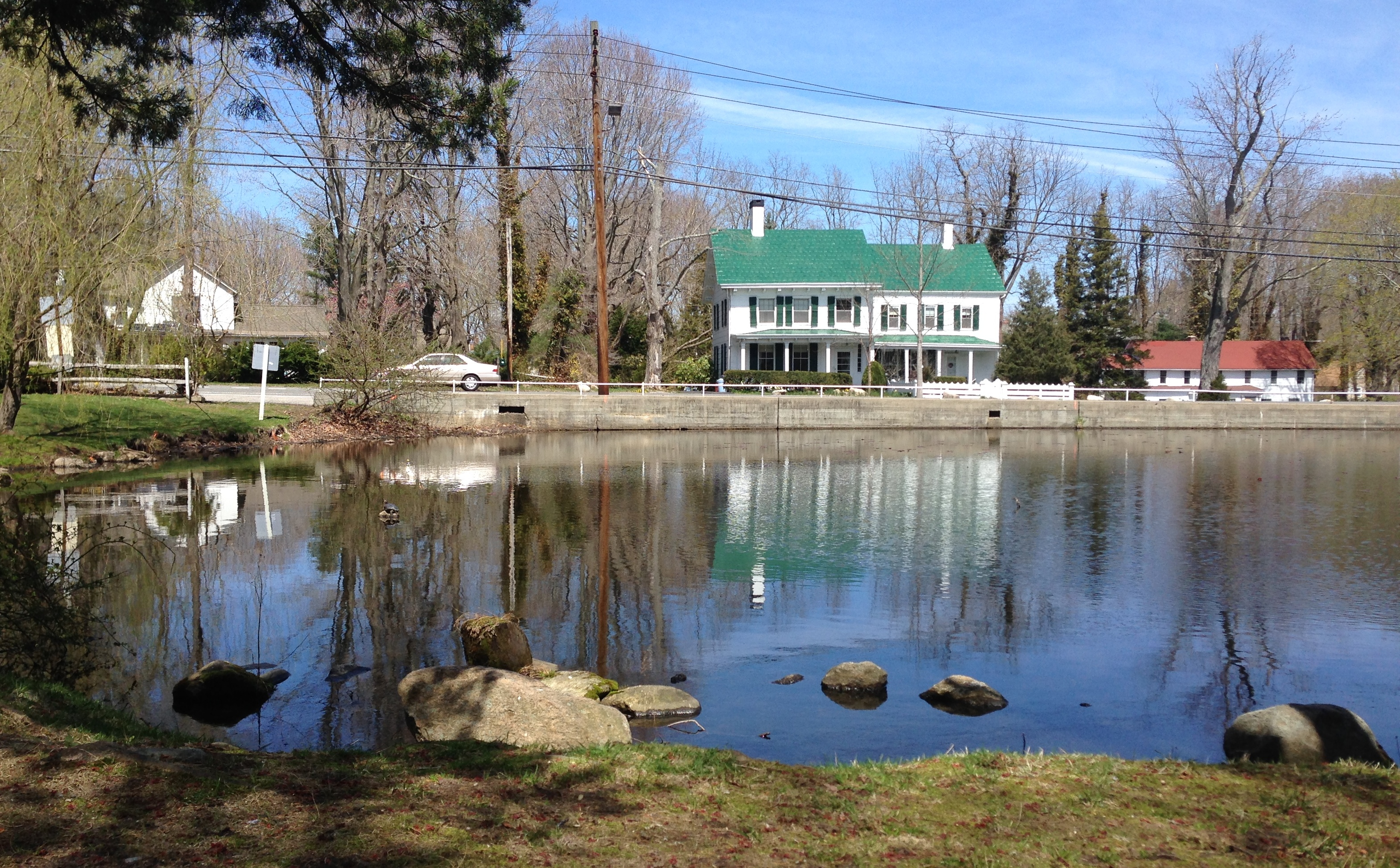 The Miller Place Duck Pond, with the Woodhull house behind.